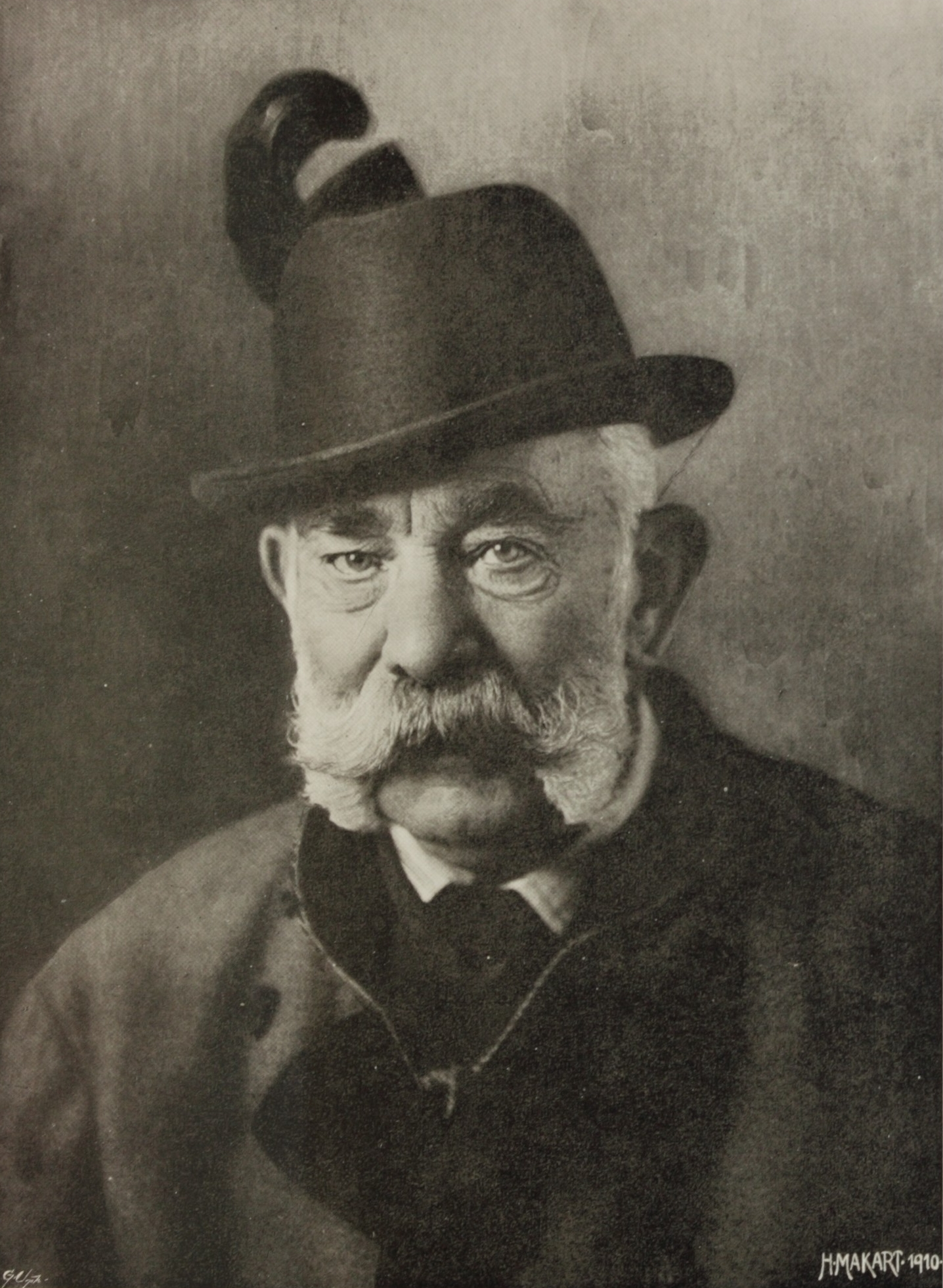 Franz Joseph I of Austria (1830–1916), in hunting clothes. Gelatin silver print